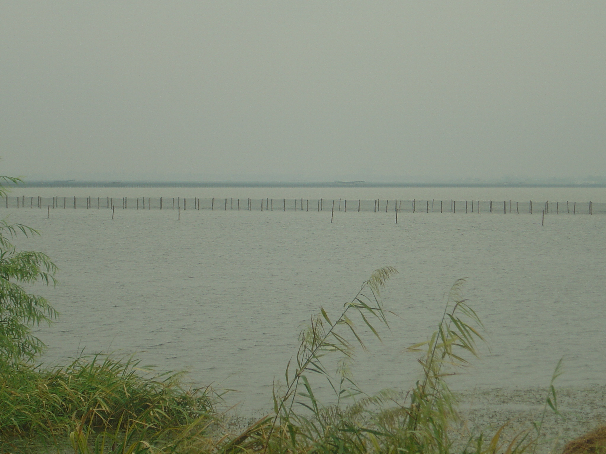 Yangcheng Lake in Suzhou